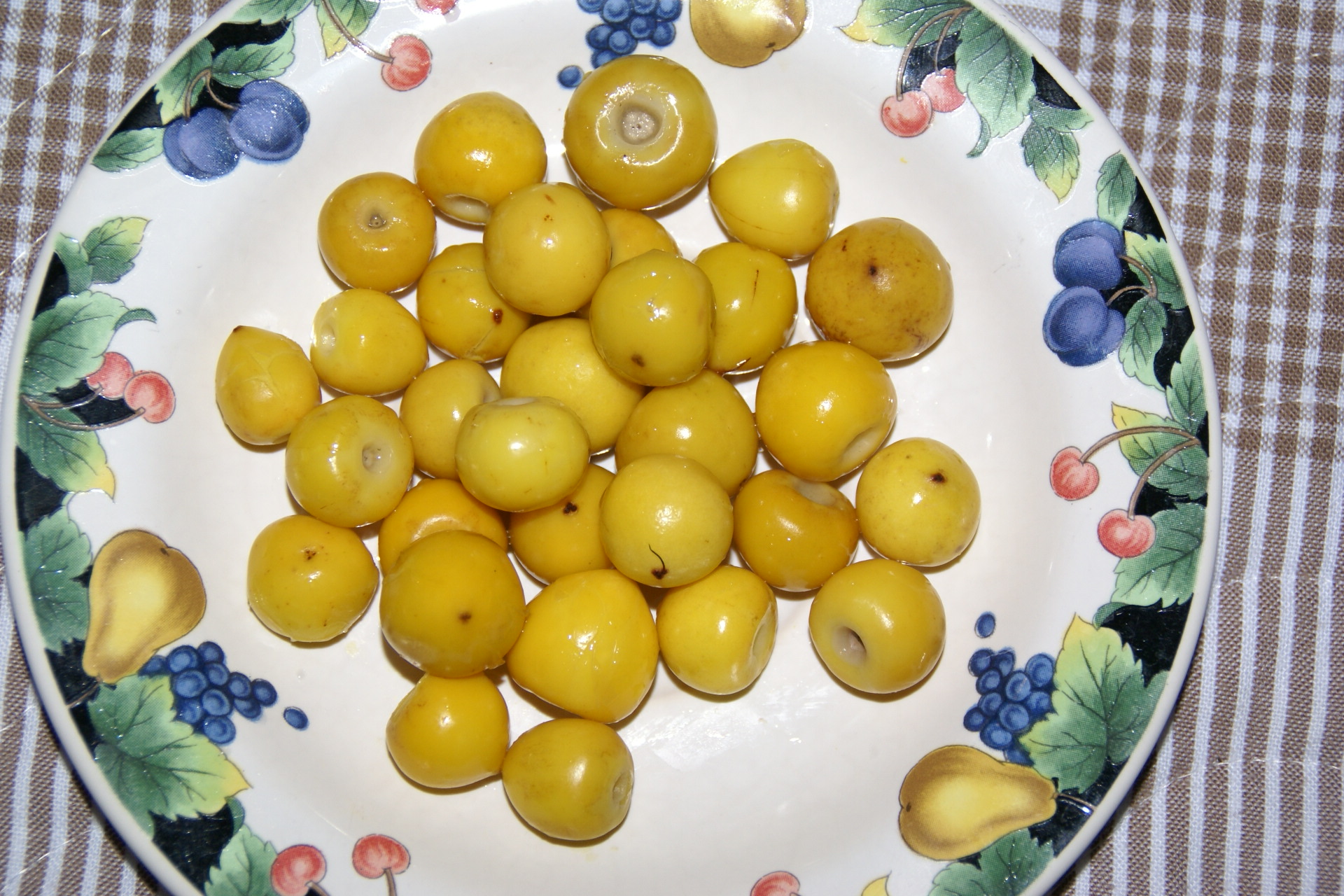 Nance (nanche) (byrsonima crassifolia), taken in Guatemala City, Guatemala